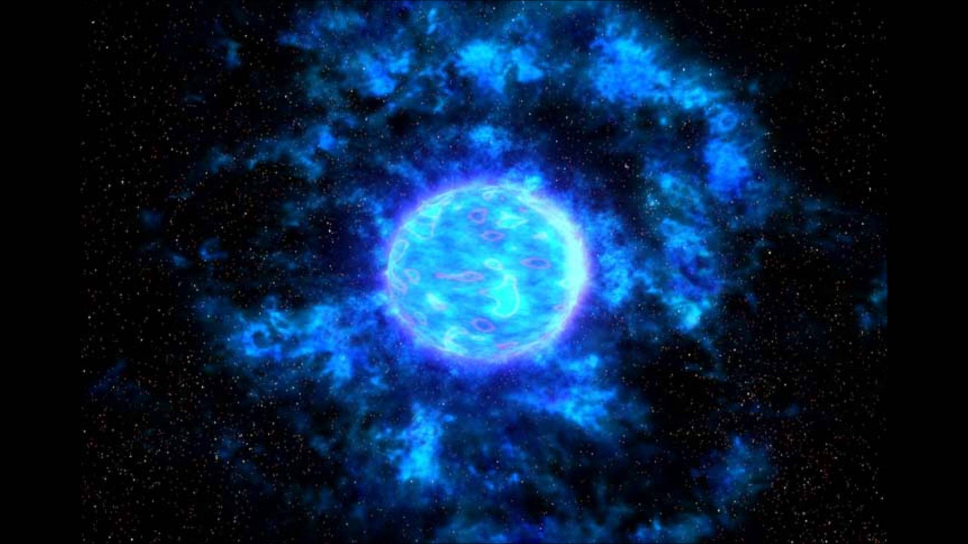 Wolf-Rayet stars are a stage in the evolution of massive stars. This image shows one shedding material that surrounds it in a Wolf–Rayet nebula.